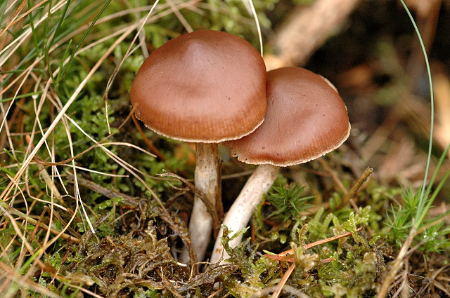 Cortinarius brunneus from Commanster, Belgium. If you think this is a different taxon, please contact James Lindsey.